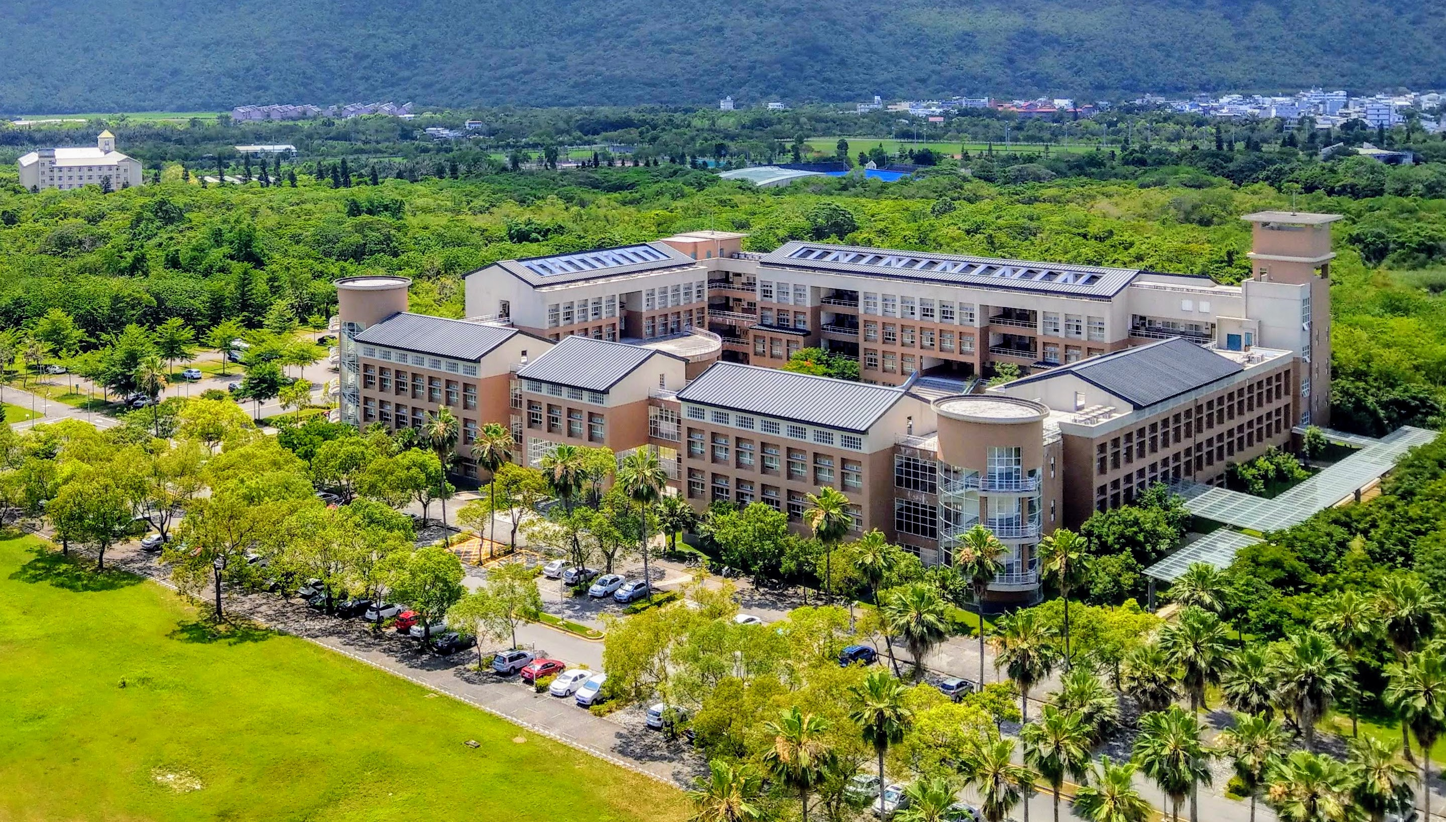 College of Management at National Dong Hwa University